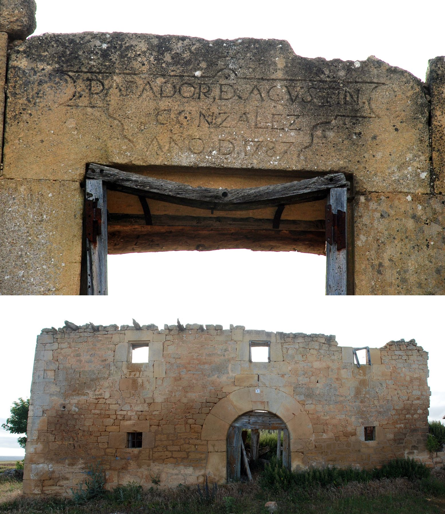 Villalta, Páramo de Masa (Province of Burgos, Castile and León). "PARADOR DE AGUSTÍN GONZALEZ. AÑO DE 1787"